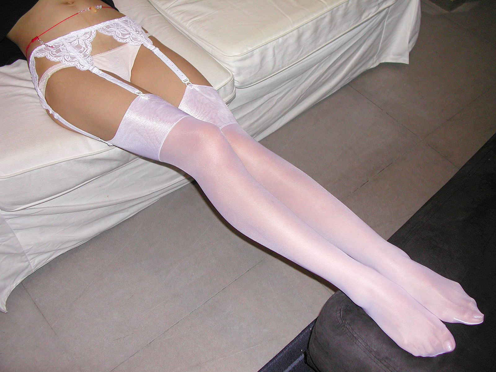 A woman's legs wearing a white garter belt and a pair of stockings.